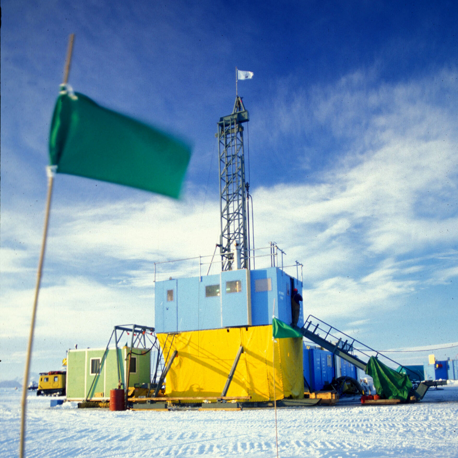 Drilling rig of the Cape Roberts Project on the Ross Sea ice. The rig was used for three years to recover sediment cores for the geological reconstruction of Antarctic glaciation history.